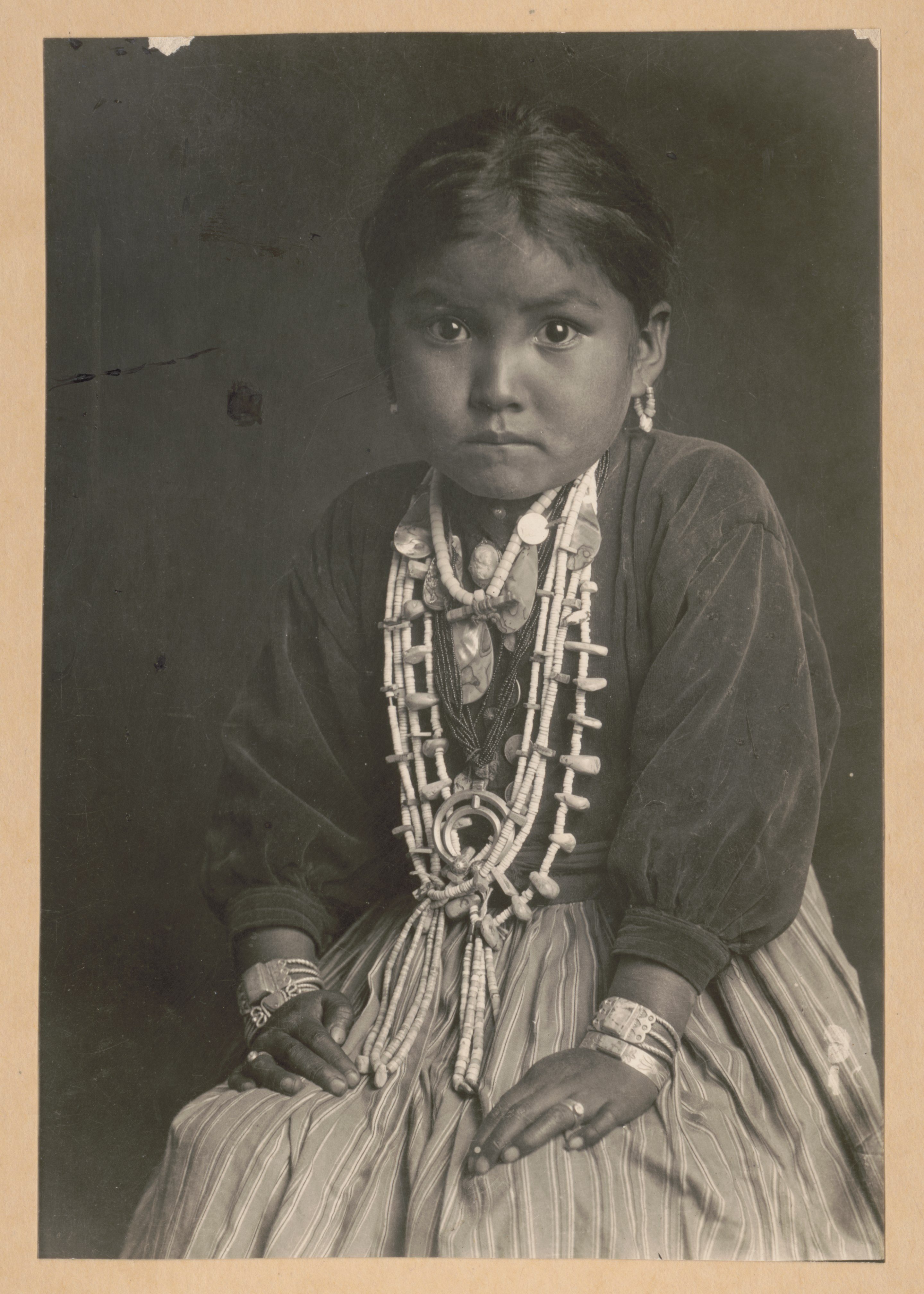 Title: The silversmith's daughter - Navajo Indian, near Gallup, N. Mex. Abstract/medium: 1 photographic print : gelatin silver.